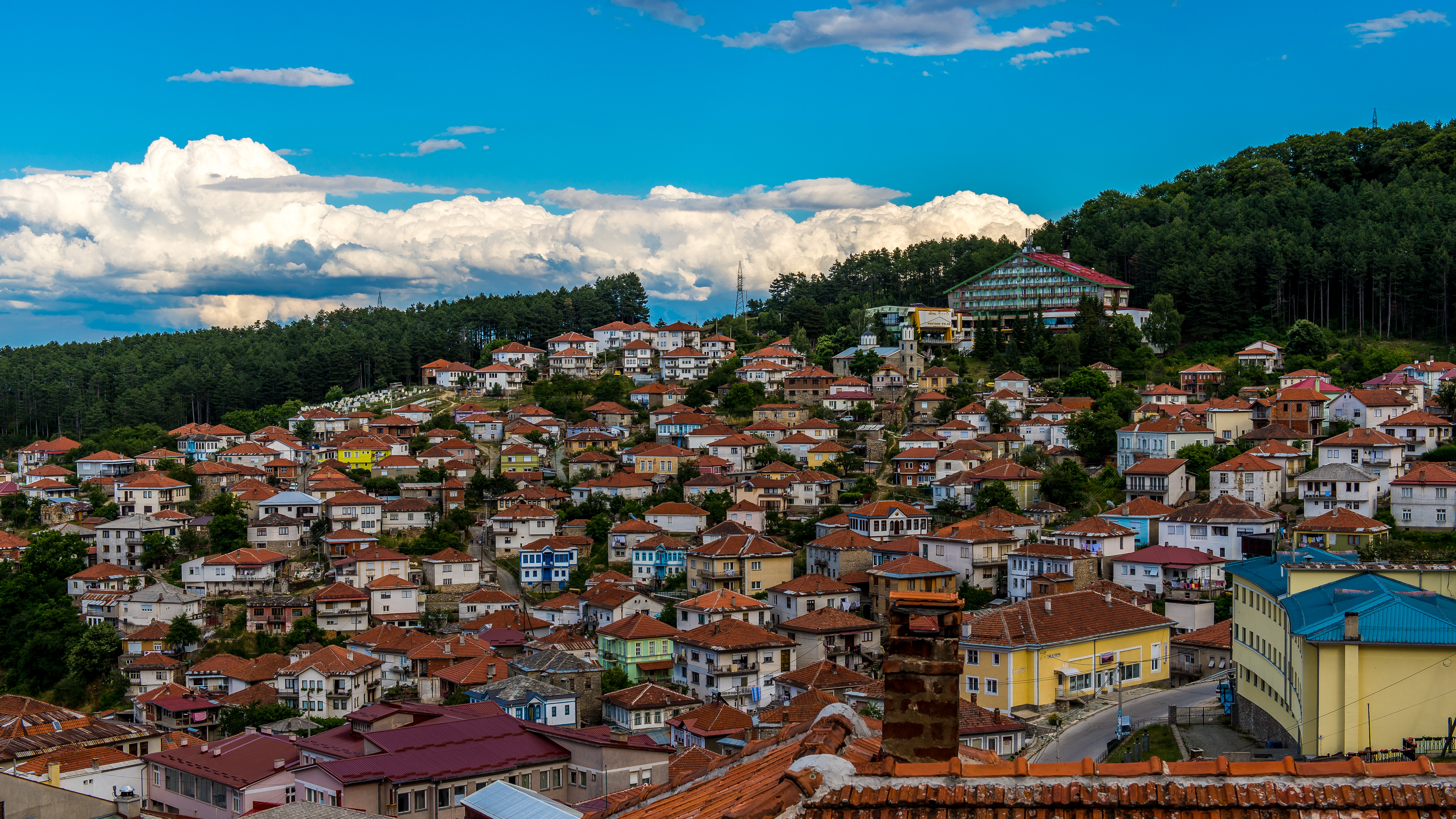 View of Kruševo